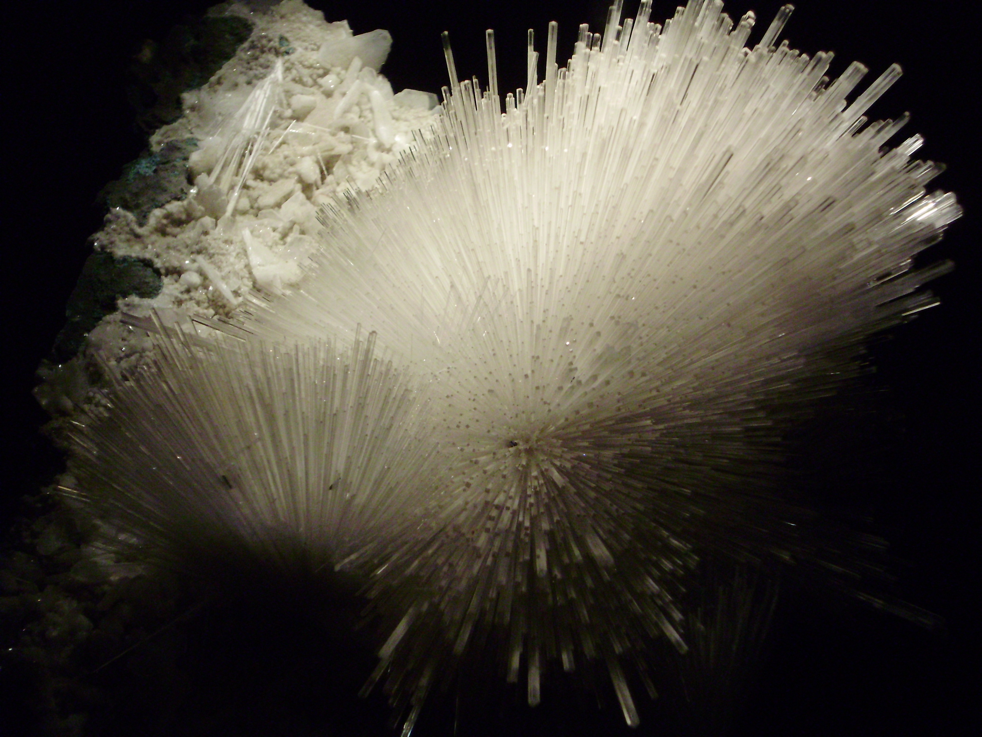 Crystals of Mesolite. Lonavala Quarry, Lonavale (Lonavala), Pune District (Poonah District), Maharashtra, India. Photo taken at the Pacific Museum of the Earth.